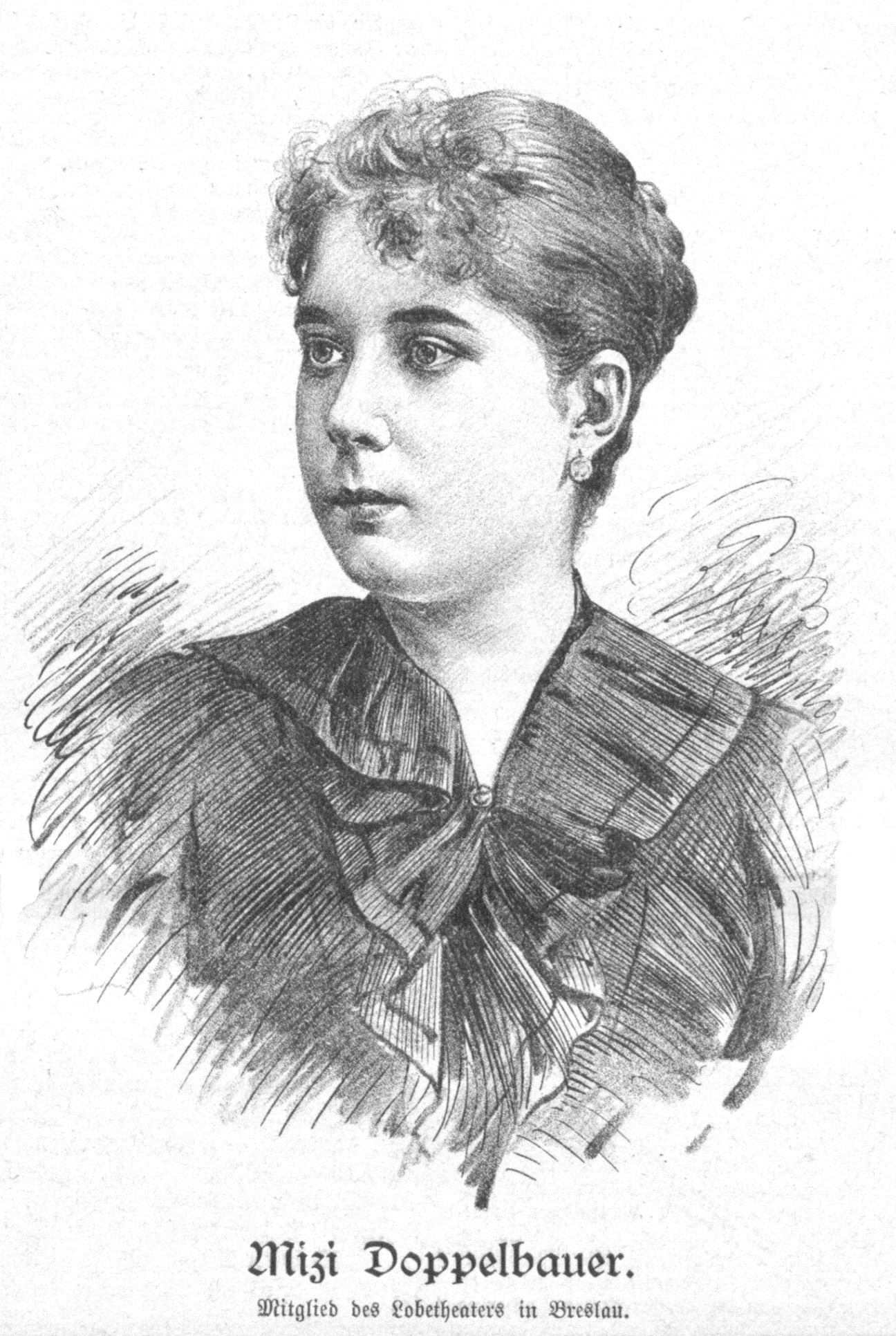 Portrait of Marie "Mizi" Doppelbauer (1875-??), Austrian actress